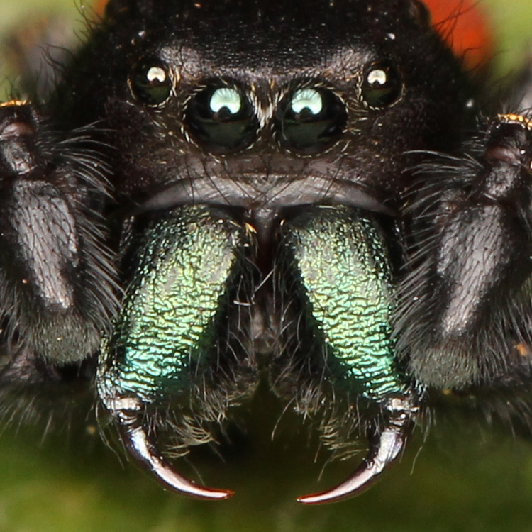 Adult male Phidippus johnsoni jumping spider in defensive pose with fangs extended.